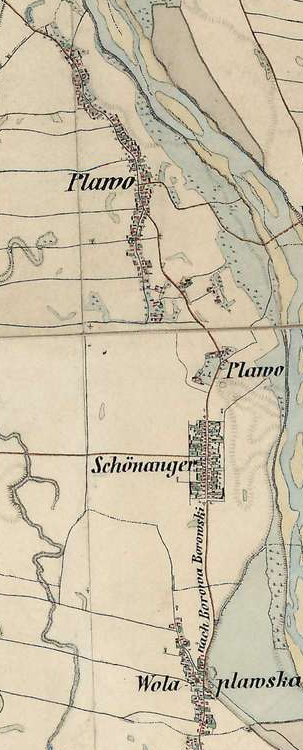 Pław, Schönanger and Wola Pławska on an austrian map from around 1855